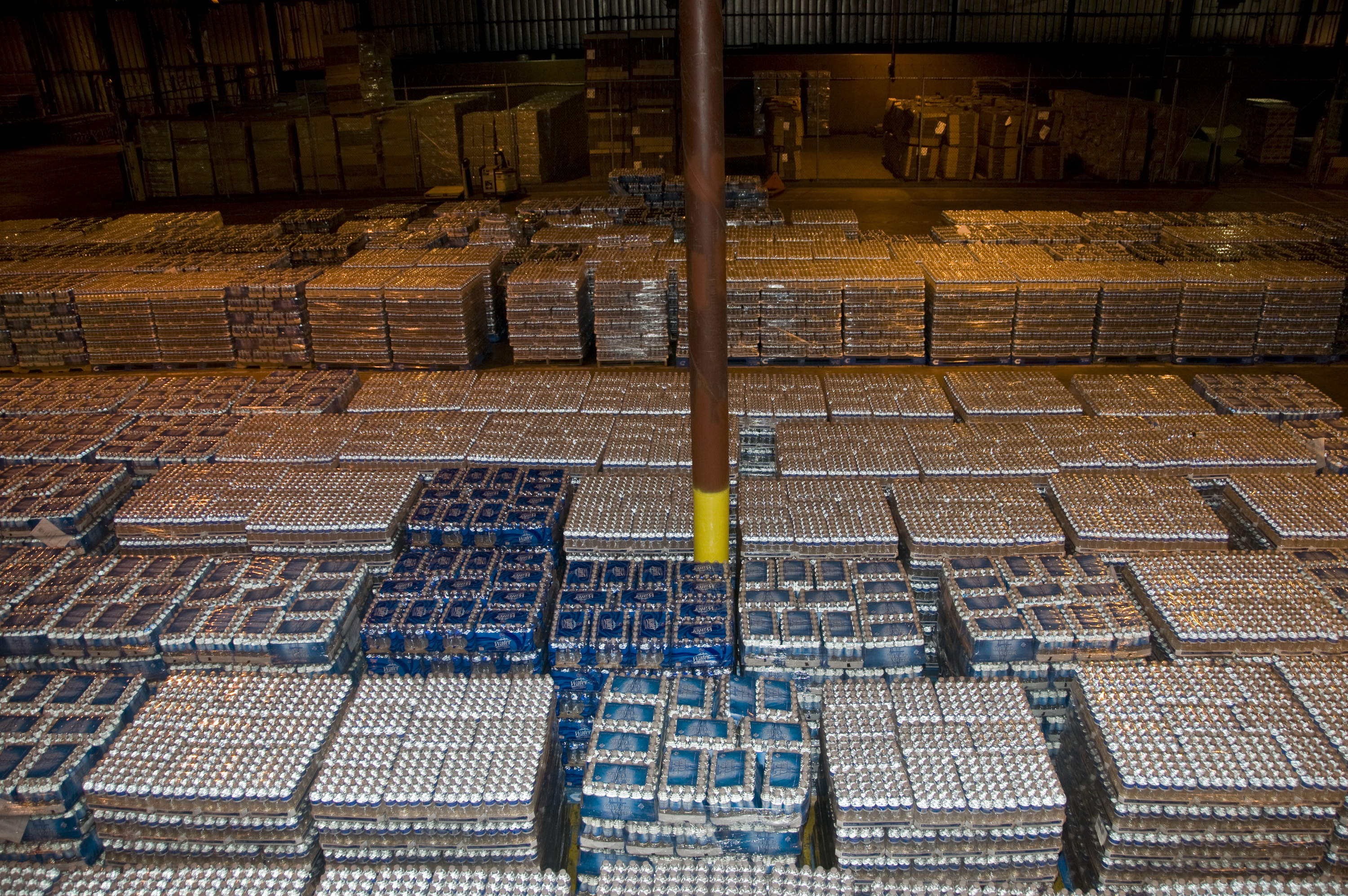 Lifting, TX, September 2, 2008 -- Pallets of water sit in a warehouse in Lufkin, TX awaiting distribution to residents affected by Hurricane Gustav. The warehouse is being used to handle basic supplies of water and MRE (meals ready to eat) for distribution to residents affected by Hurricane Gustav. Photo by Patsy Lynch/FEMA